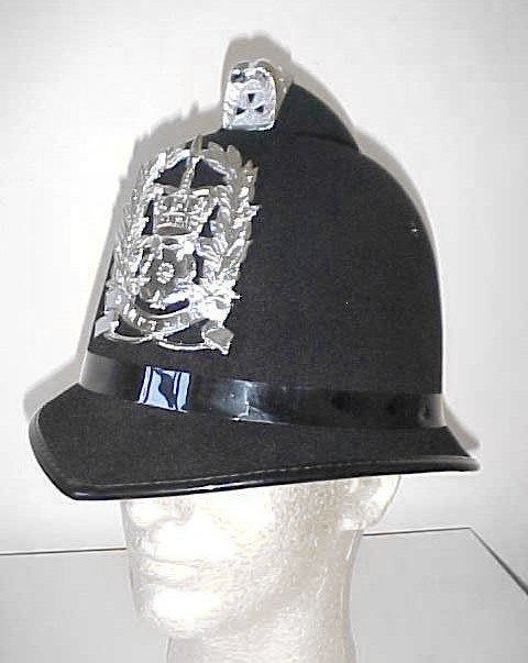 This image is from Christian Duckett's Trooper Hats web site located at He has kindly granted permission for its use under the terms of the GNU Free Documentation License.